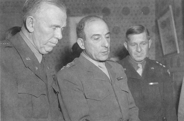 Generals Marshall, de Lattre and Devers